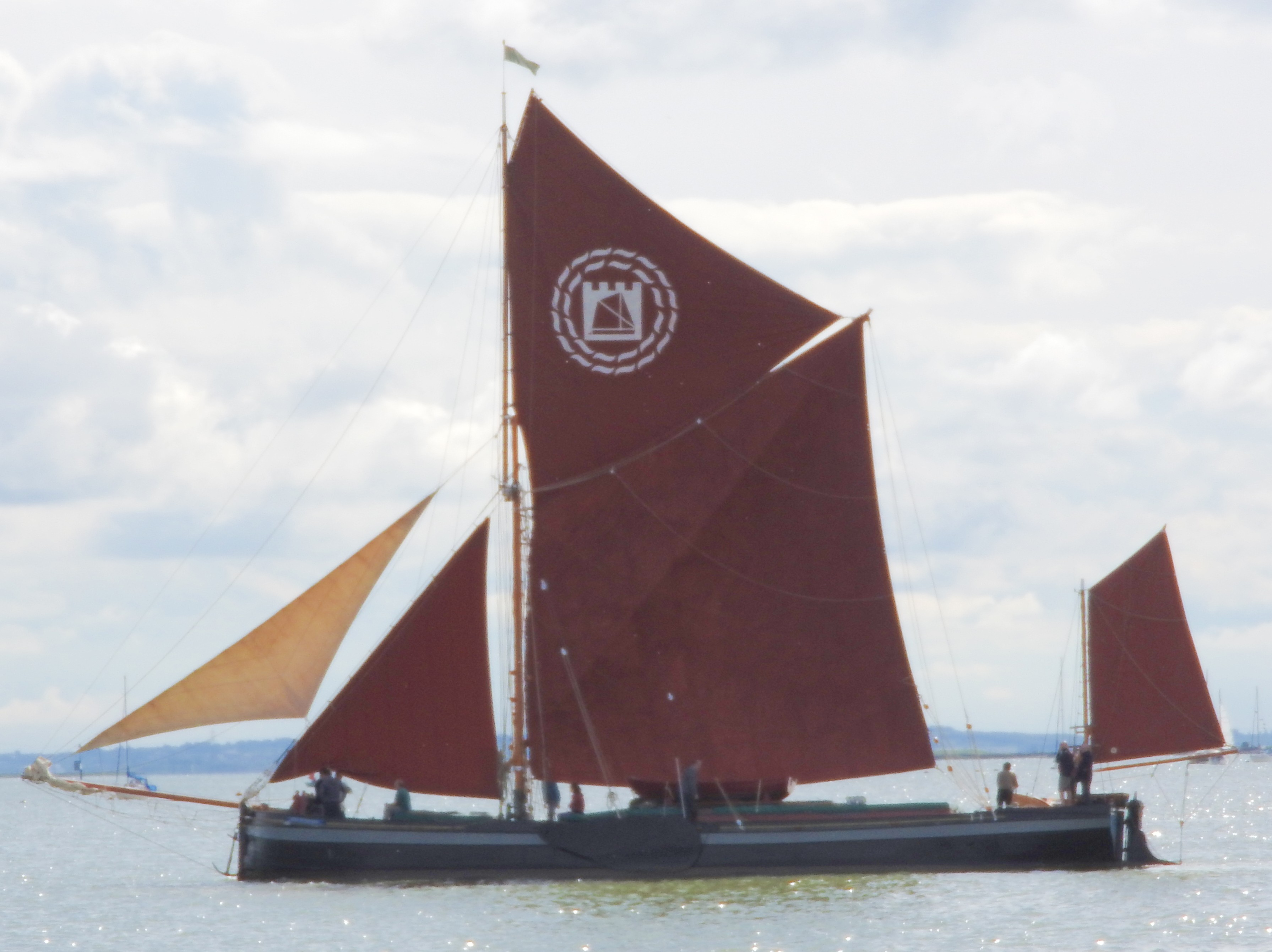 Barges competing in the 109th Medway Barge Sailing match, viewed from the shore at Gillingham Pier.